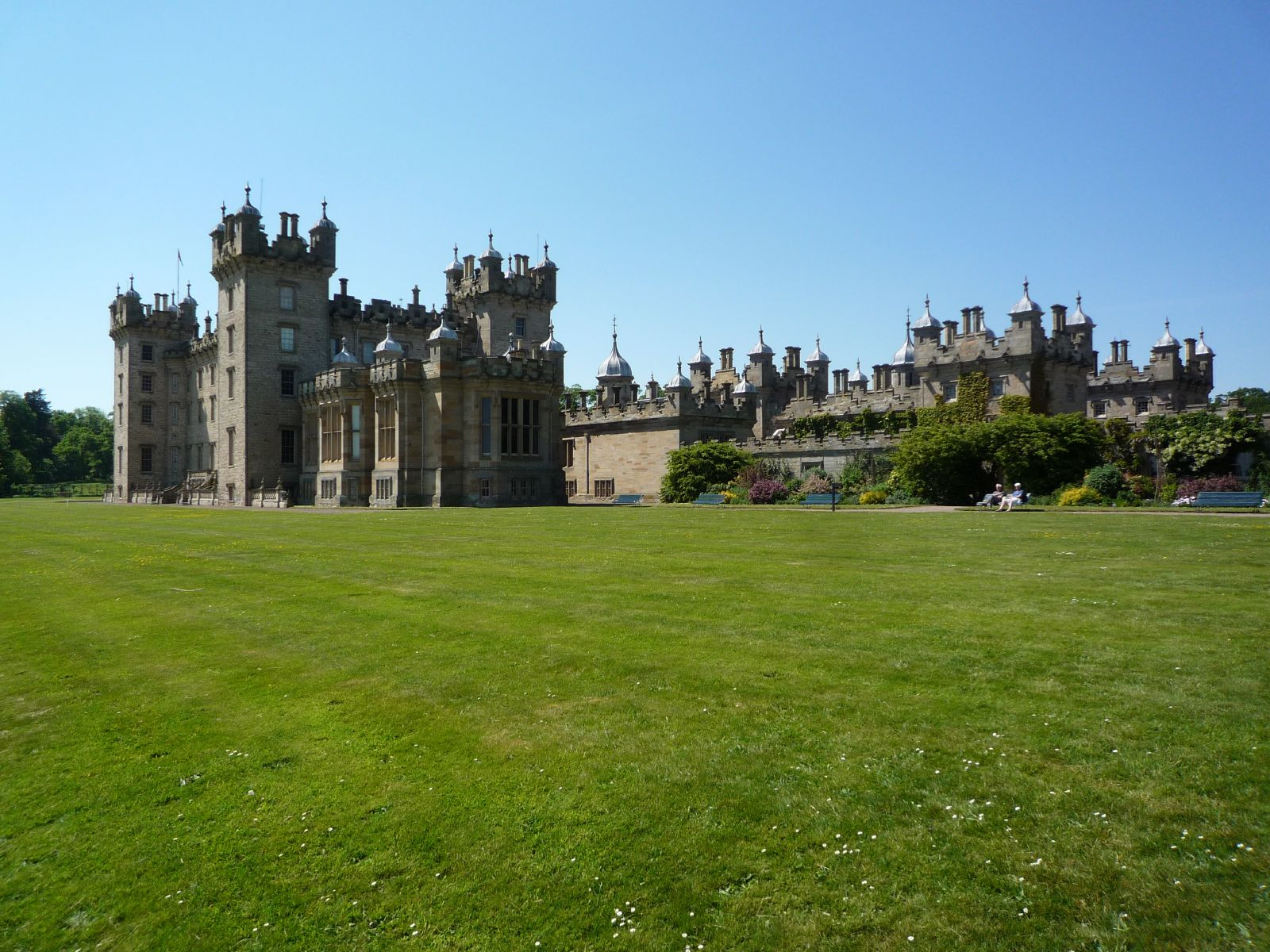 Floors Castle, Kelso, Scotland